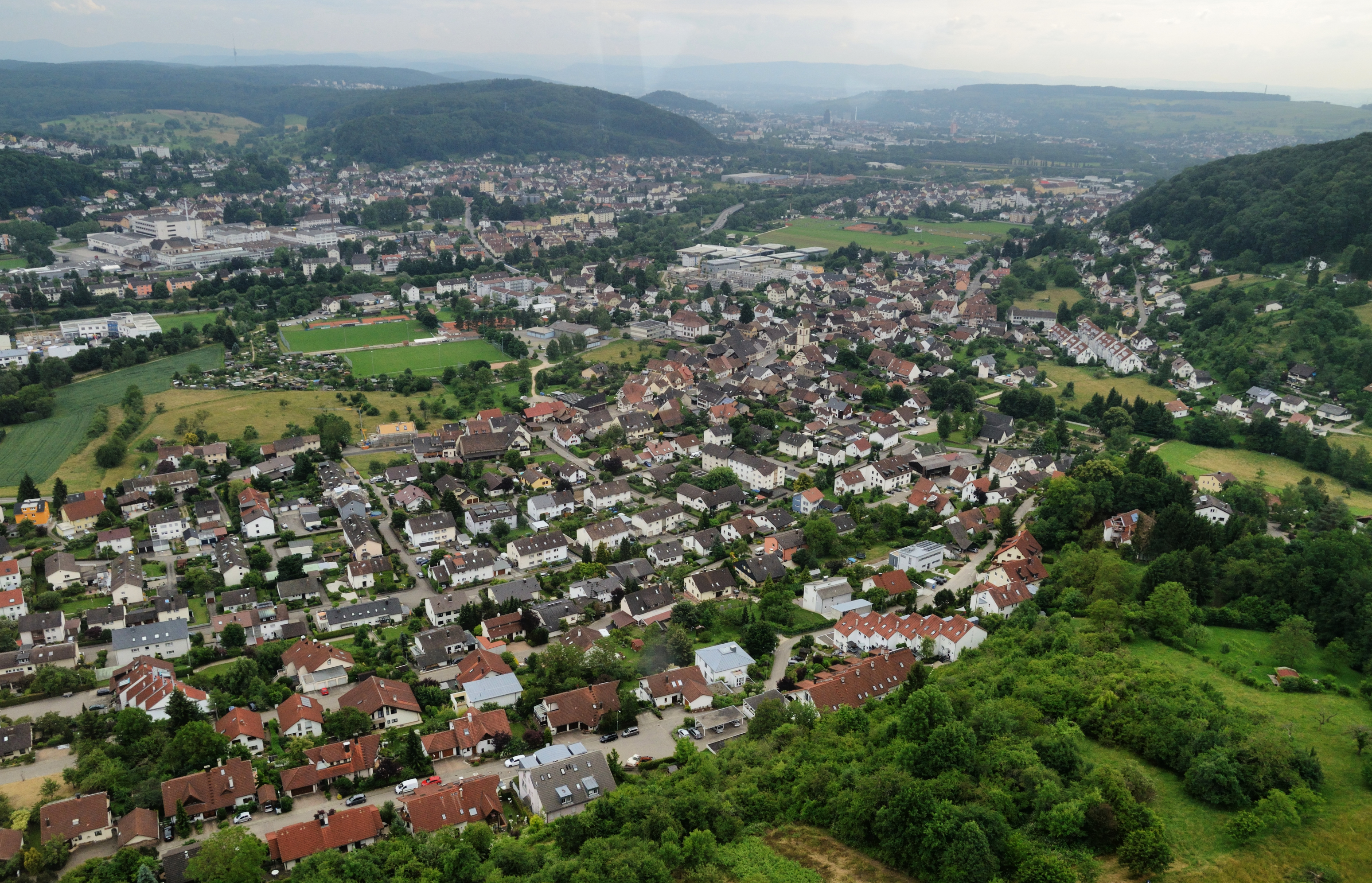 Aerial view at Lörrach-Hauingen